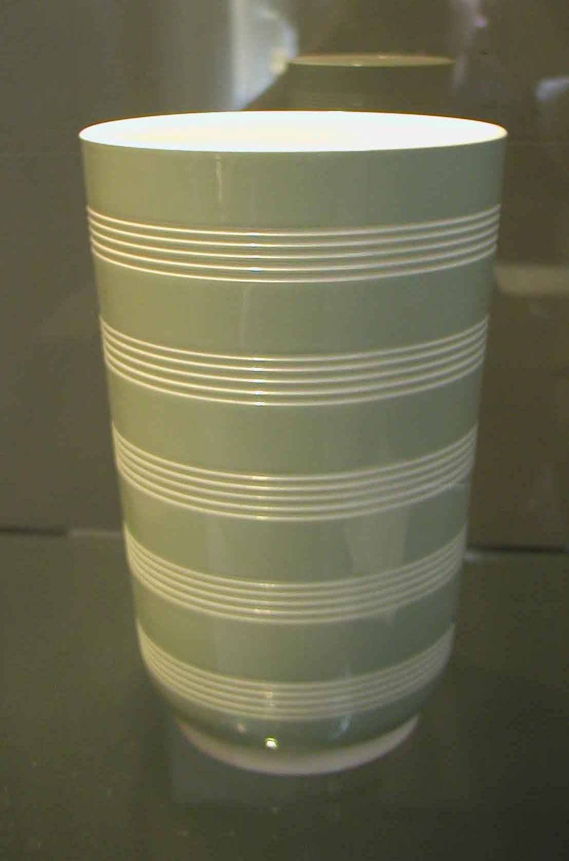 Vase Vase, tapering, white body, ribbed concentric circles etched into exterior through the (olive) green surface bowl. Murray begun designing ceramics for J. Weedgwood and Sons from 1933 to 1939, ceramics continued in production until late 1950s. (Cameron,1986, p. 236)